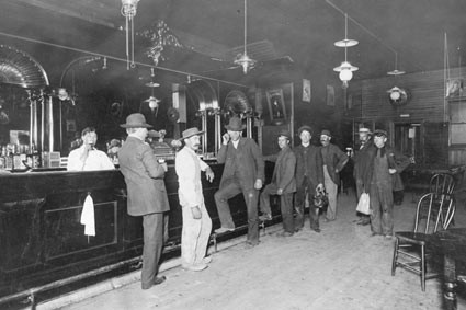 Patrons at the White Eagle saloon in Portland, OR; ca. 1910